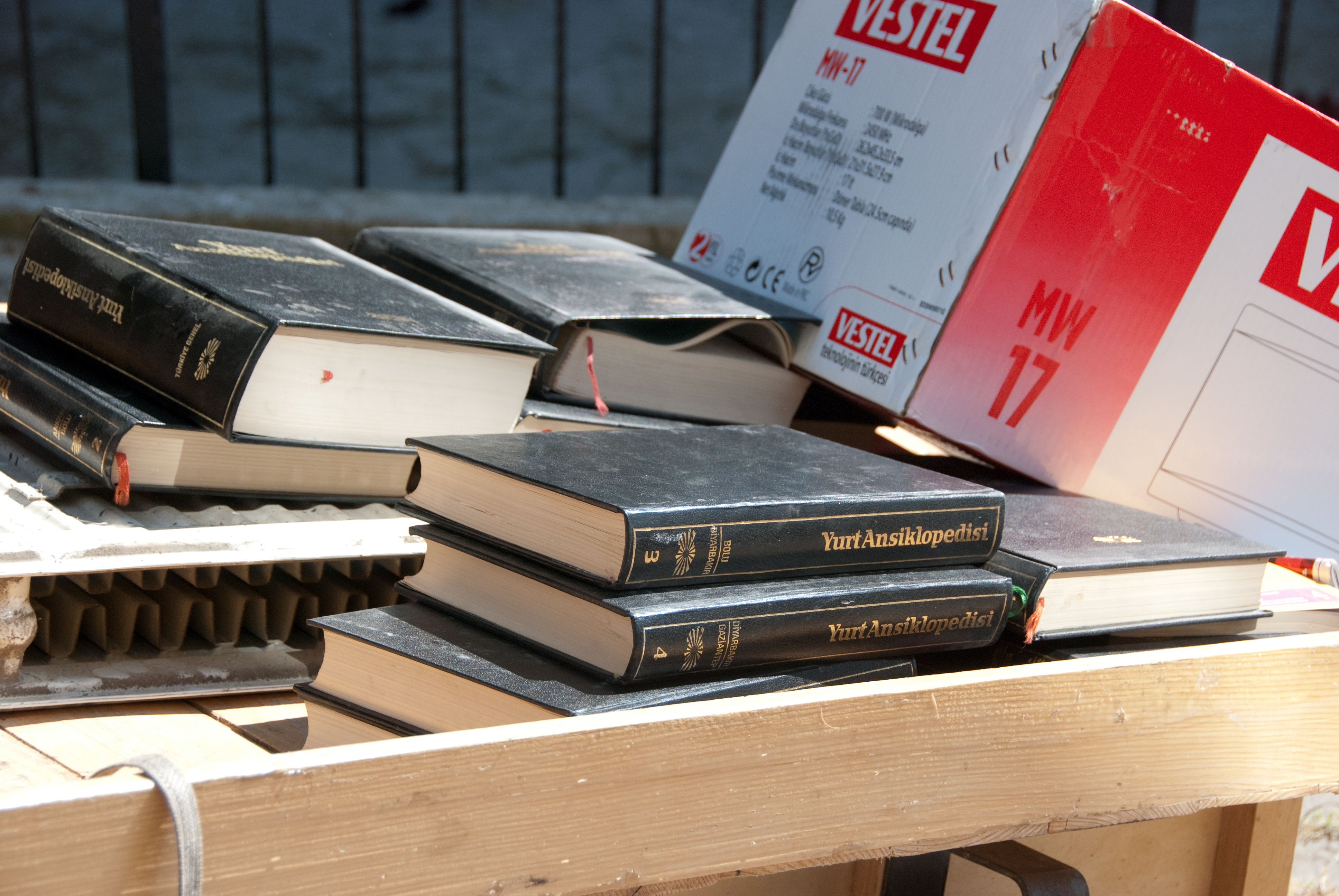 old encyclopedias on a push cart in a residential street in Moda on the Anatolian shore in Istanbul, Turkey. Yurt Ansiklopedisi